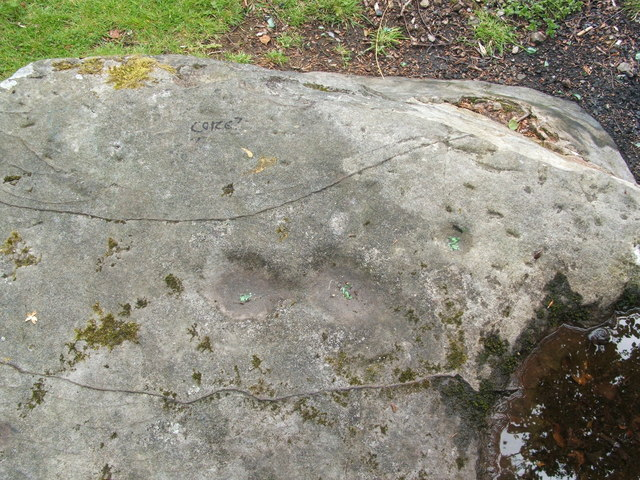 Cup markings in Auchnacraig Urban Park. This rock has three conspicuous cup marks: two are close together, just below the centre of the image, and another one is to their right. All three happened to have some small shards of green glass in them, making their position more evident. This group of rocks also bears a number of smaller cup marks, some of them with rings. For further information on the cup and ring markings at this site, see: 927206.